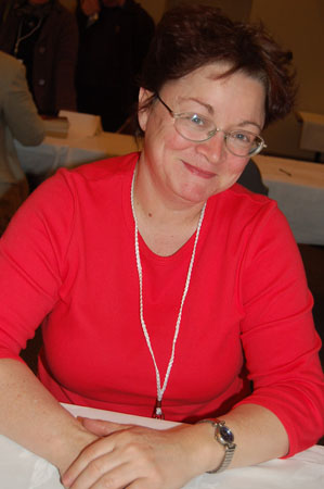 Australian fantasy author Karen Miller at the Conflux convention in Canberra. Photographed by Catriona Sparks.